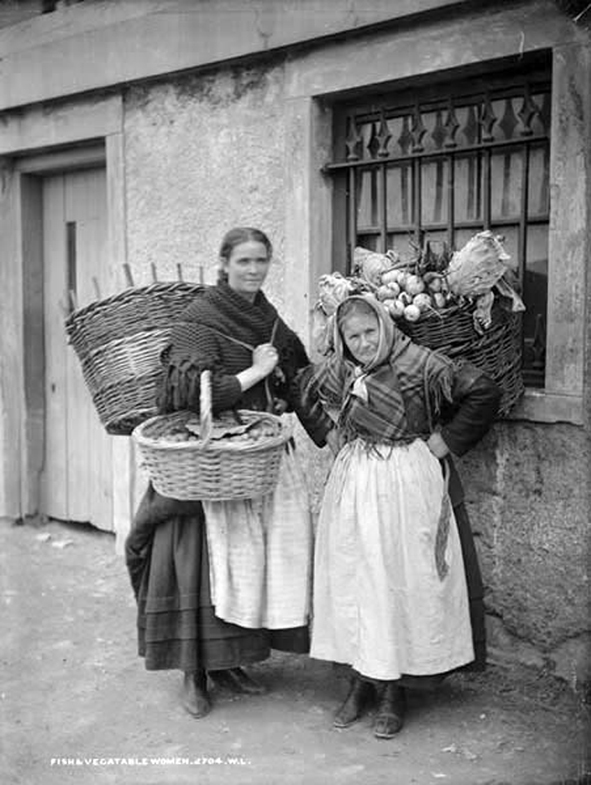 NLI Ref.: L_ROY_02704